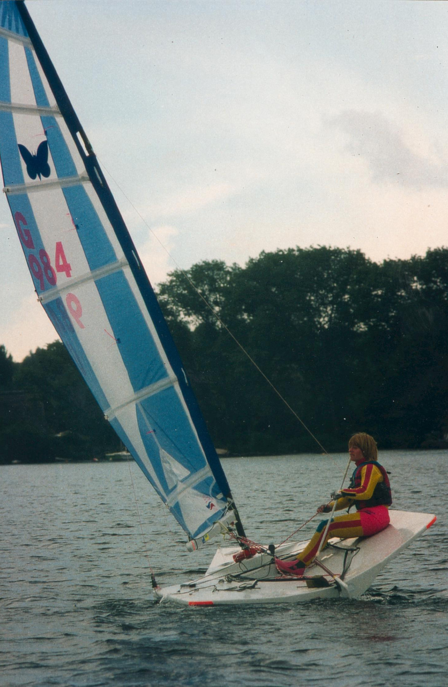 International Moth Class, Radolfzell, Deutsche Klassenmeisterschaft, 1987